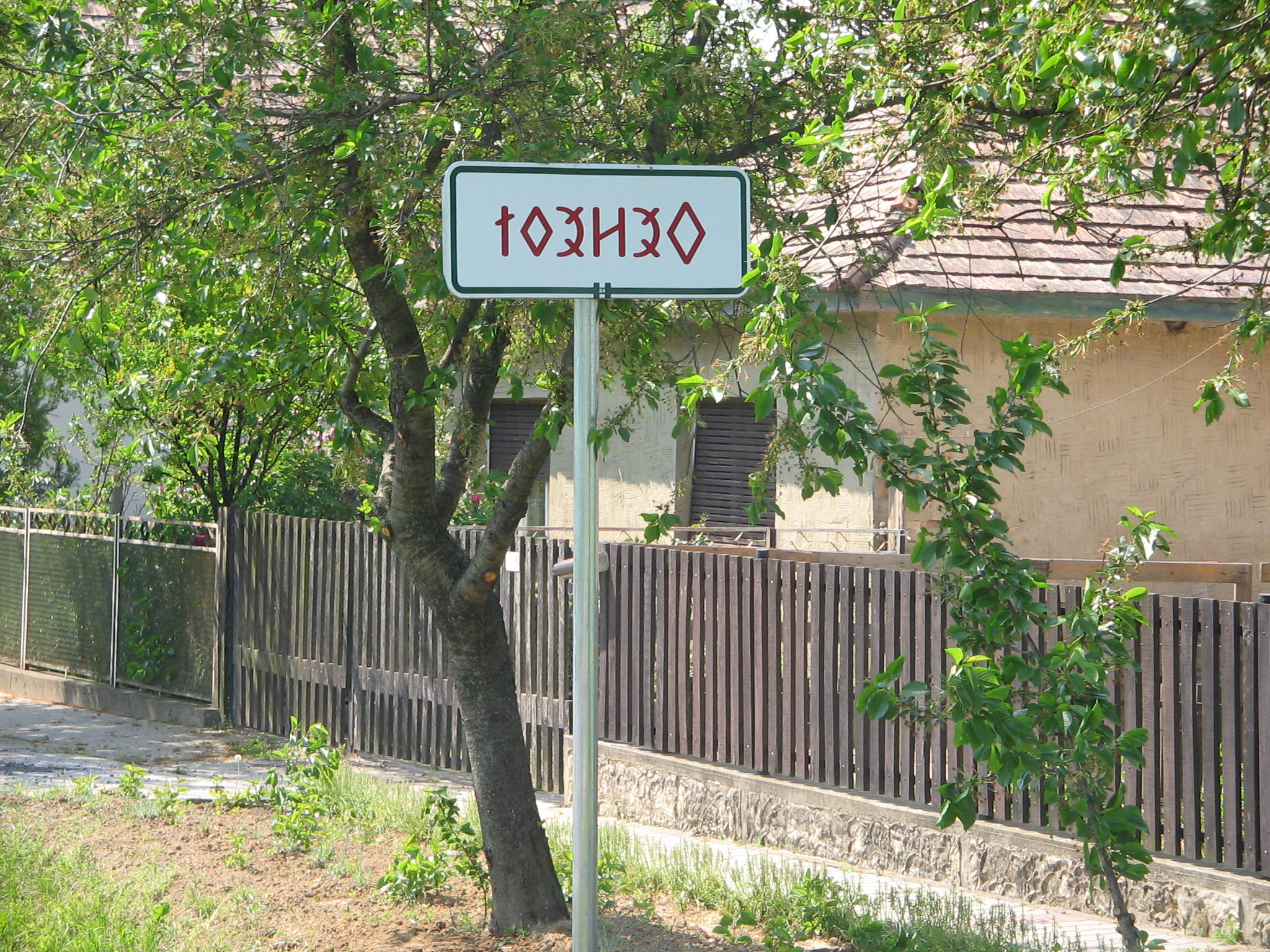 City limit table in Kereki, Hungary. Traditional Hungarian letters (rovas)